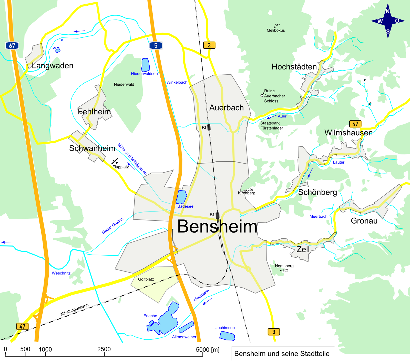 City of Bensheim (Germany) and it's districts. SVG-Master-File converted into PNG.